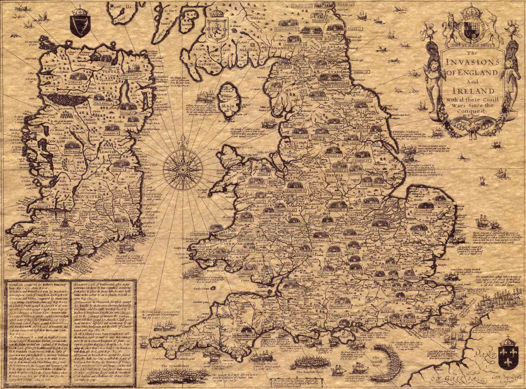 "The Invasions of England and Ireland with all their Civil Wars Since the Conquest". Numerous and intricate illustrations of battles & invasions and civil war pictures with interesting notes of such carefully engraved along side.